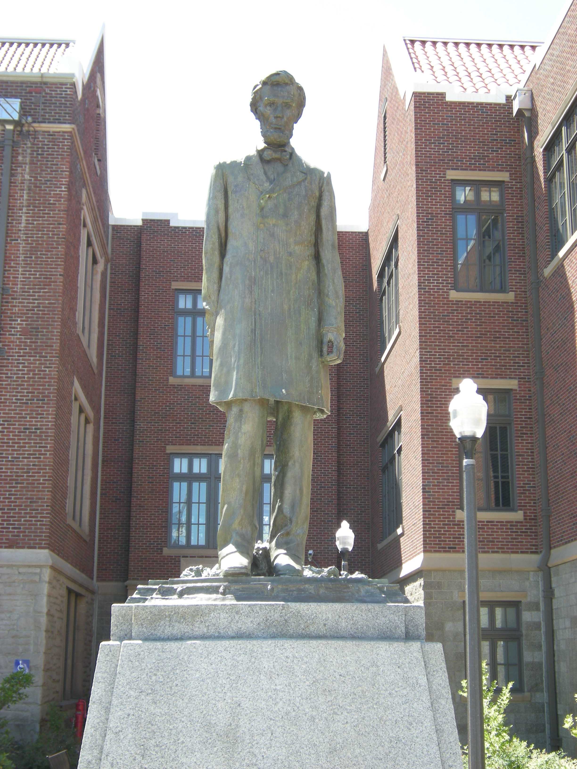 Statue of Abraham Lincoln by Alonzo Victor Lewis, Lincoln High School, Tacoma, Washington.